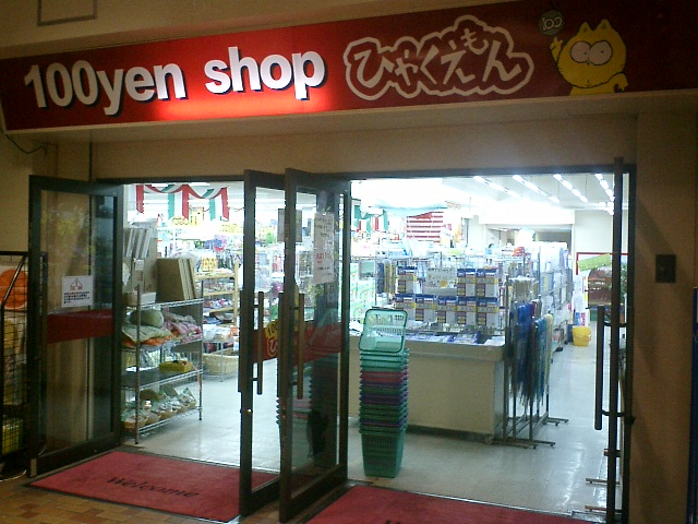 100-Emon photography day, August, 2005 photography person MASA photography place Higashi Osaka City Kohnoike-Shop